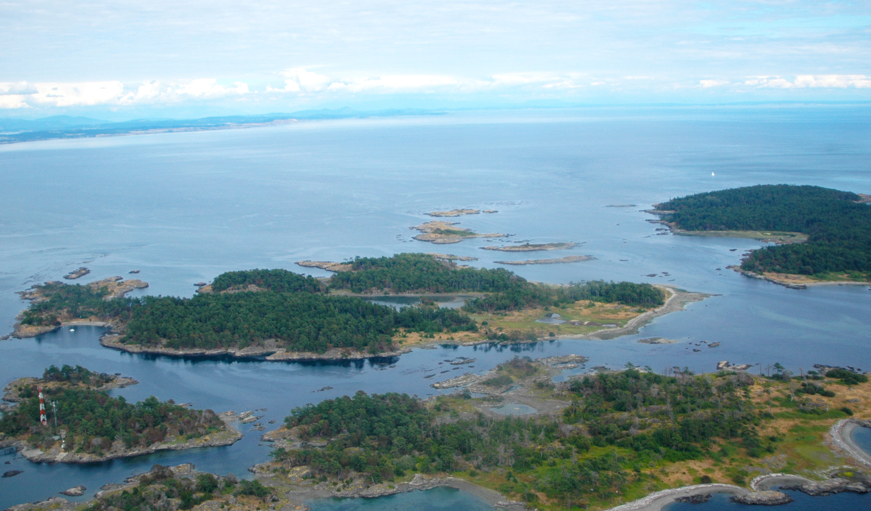 Chatham Island, Vancouver Island, British Columbia, Canada